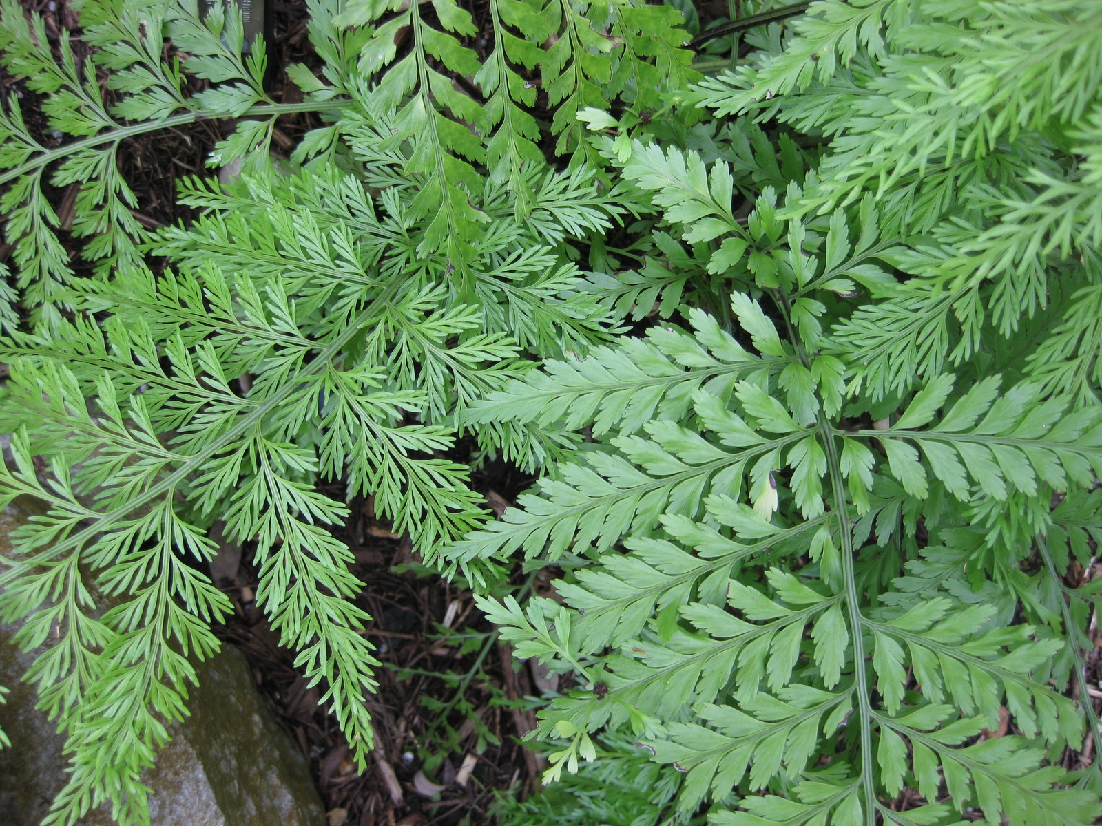 Photographed at the Royal Botanic Gardens Sydney (Australia) in January